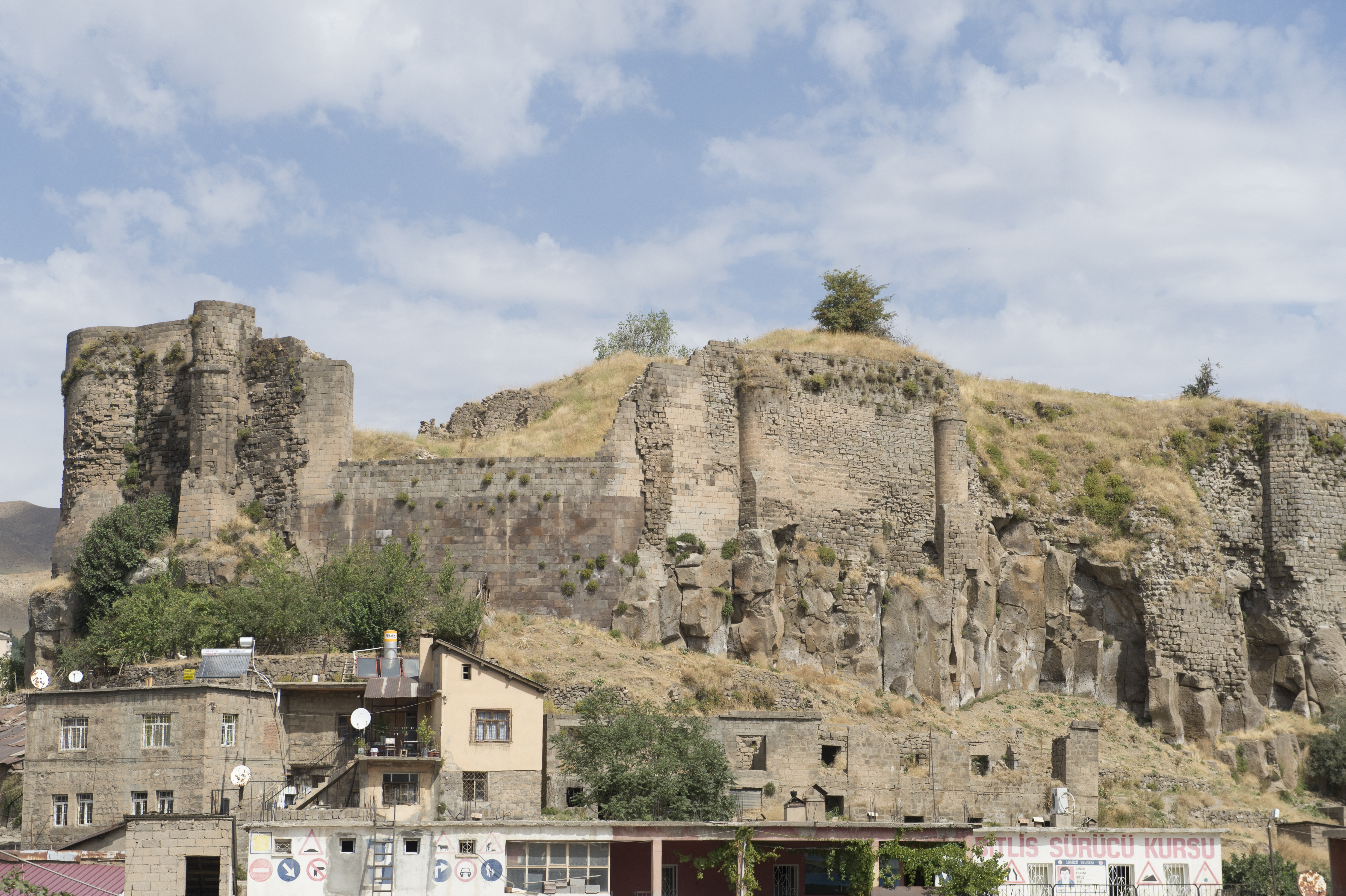 The Bitlis Castle cannot be overlooked, it domineers the centre. Its kernel is Byzantine, but it has been added to and changed until well into Ottoman times. In 1911 big parts were transported away, to be used as building material. Source: Knaurs Kültürführer (Dutch Edition).